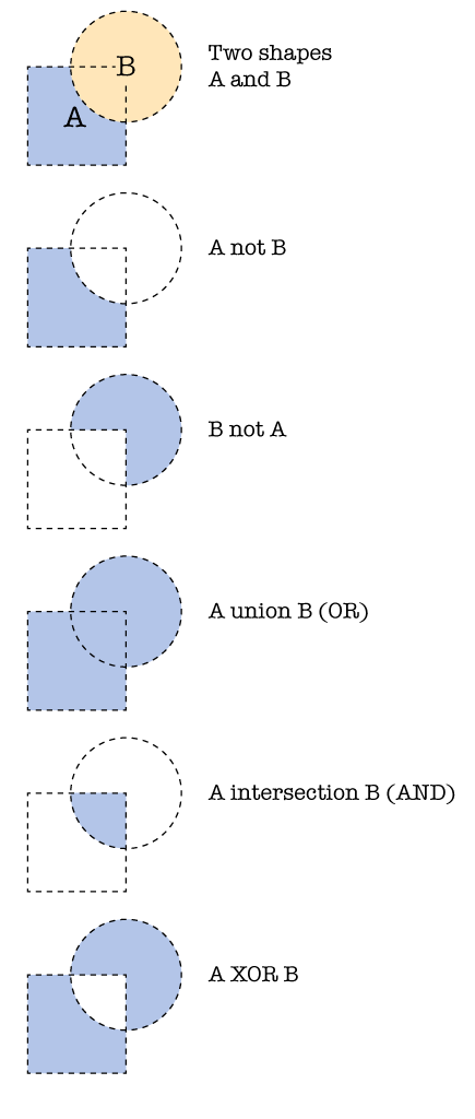 Different boolean operations on two shapes.